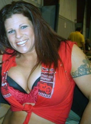 Jessica/ODB live at an OVW taping in Louisville, Kentucky in January 2007.